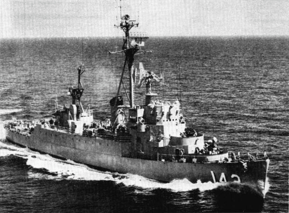 The U.S. Navy radar picket destroyer escort USS Fessenden (DER-142) underway in the Atlantic Ocean, circa in 1956.